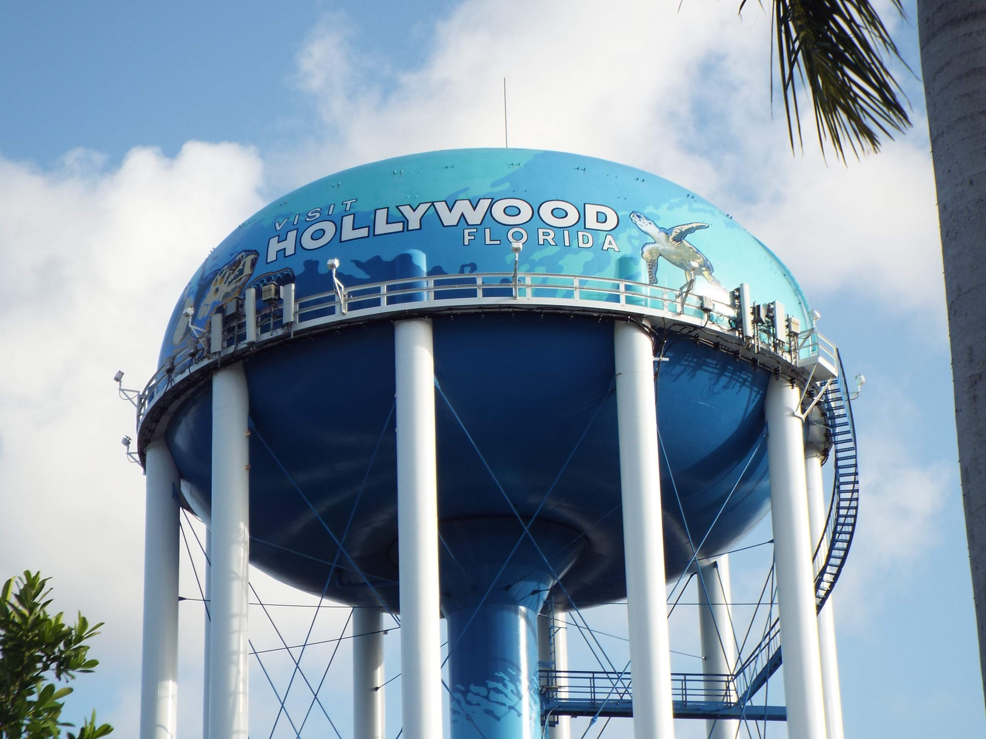 A Water Tower in Hollywood, Florida.